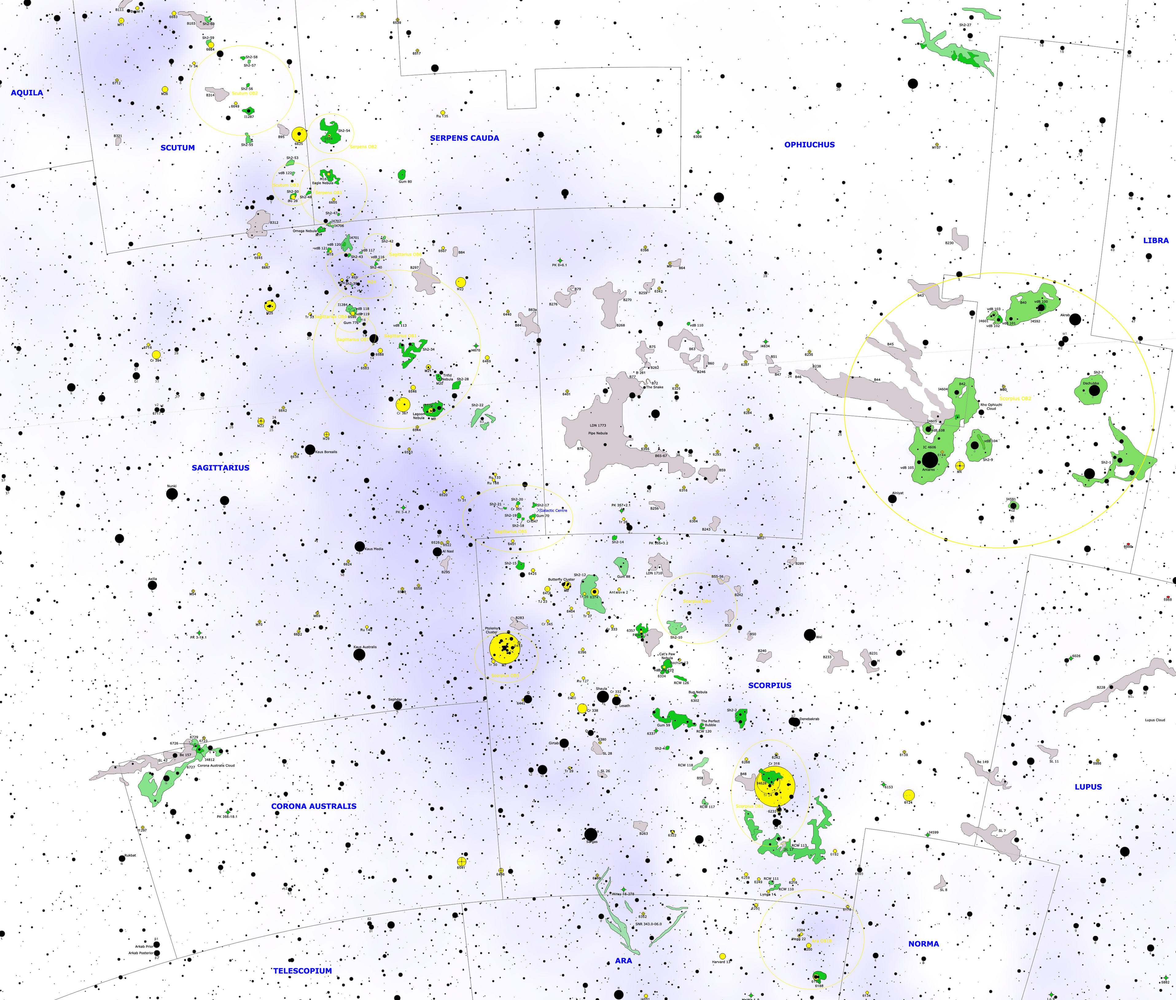 Detailed map of the central region of Milky Way; the map shows open clusters (in yellow) and the ionized region (in green). Dark cloud are plotted in grey.